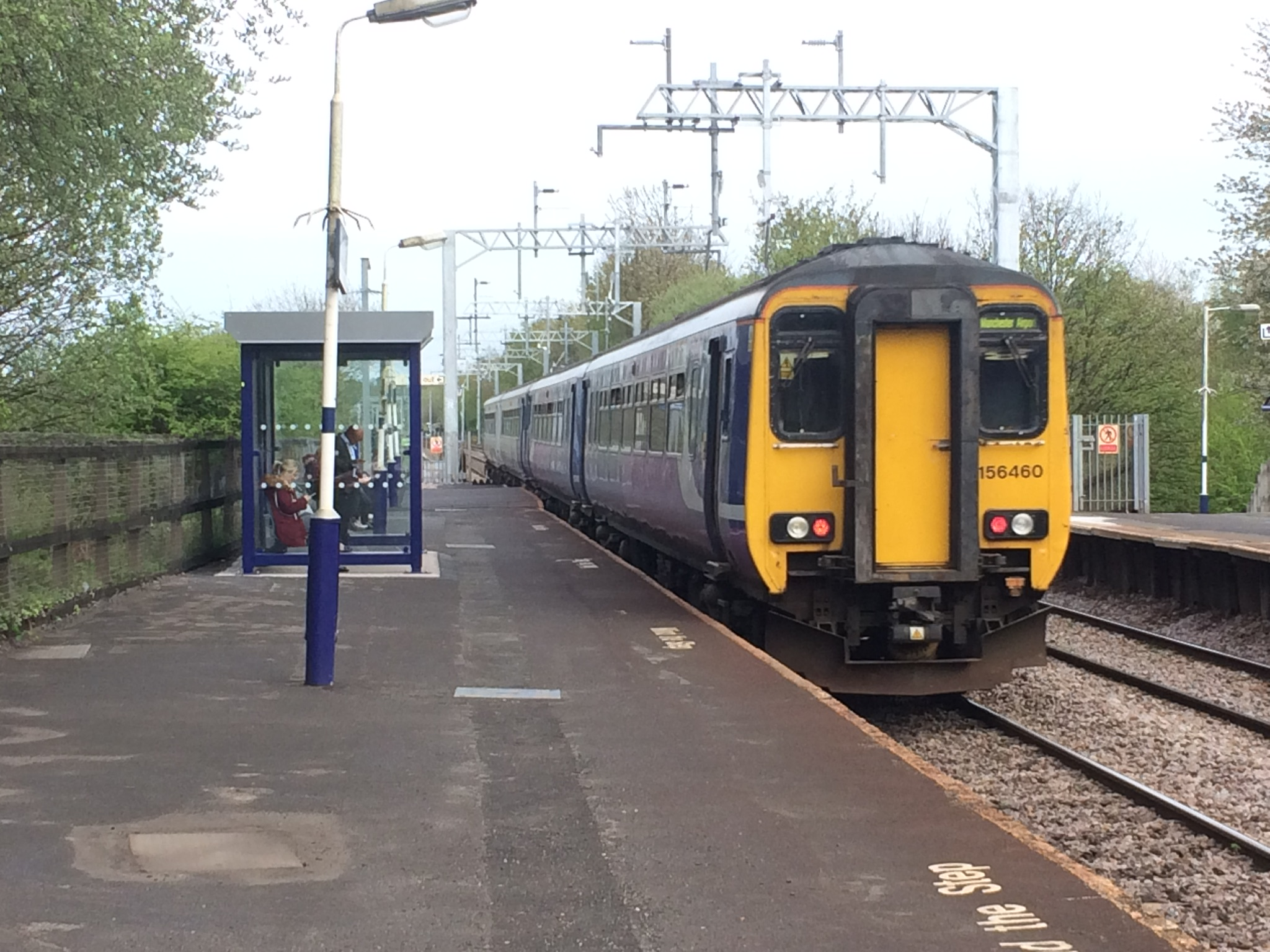 A Northern class 156 stops at Kearsley’s Manchester bound platform in May 2018.